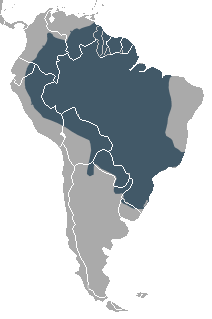 South American Coati (Nasua nasua) range